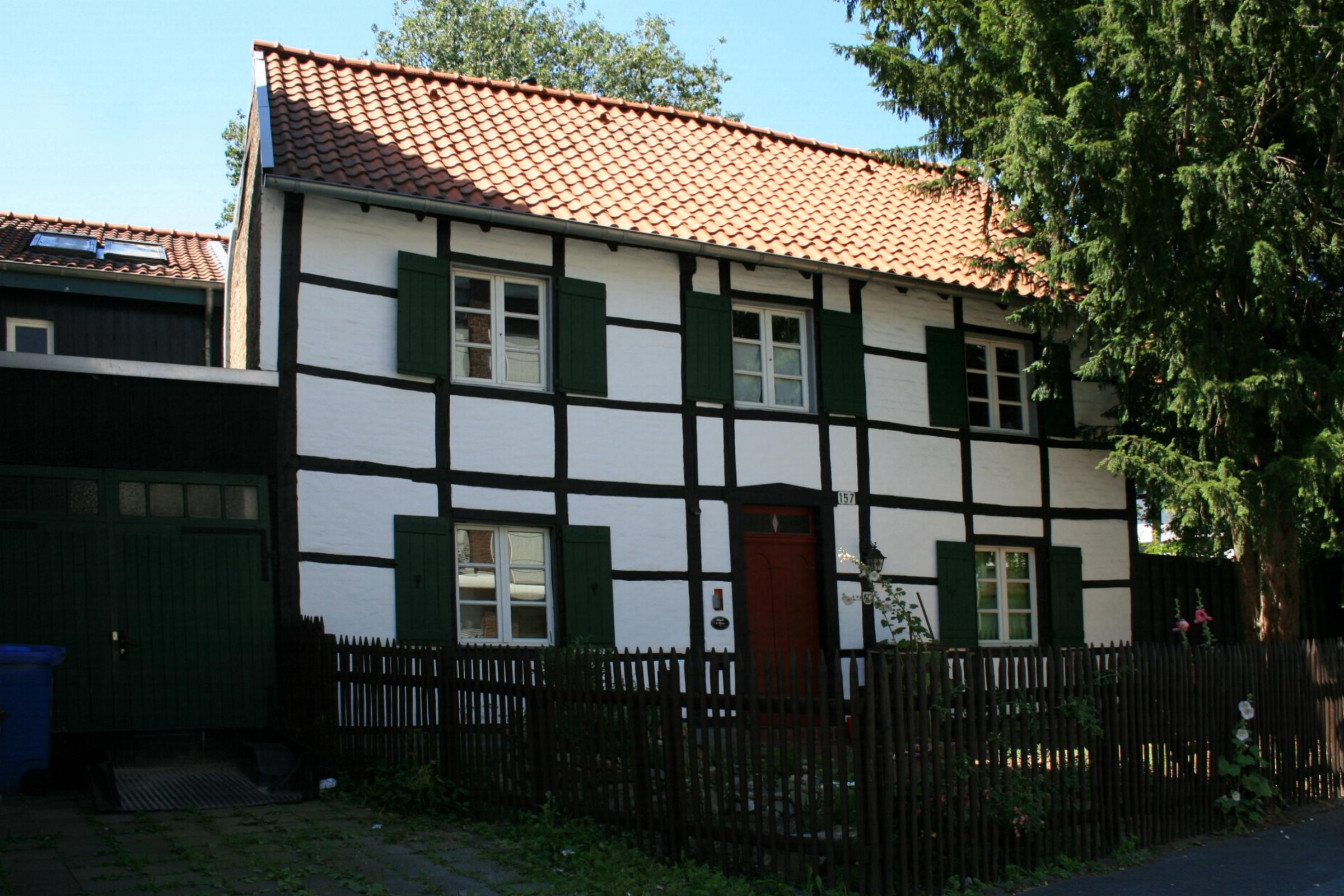 Cultural heritage monument No. E 009 in Mönchengladbach